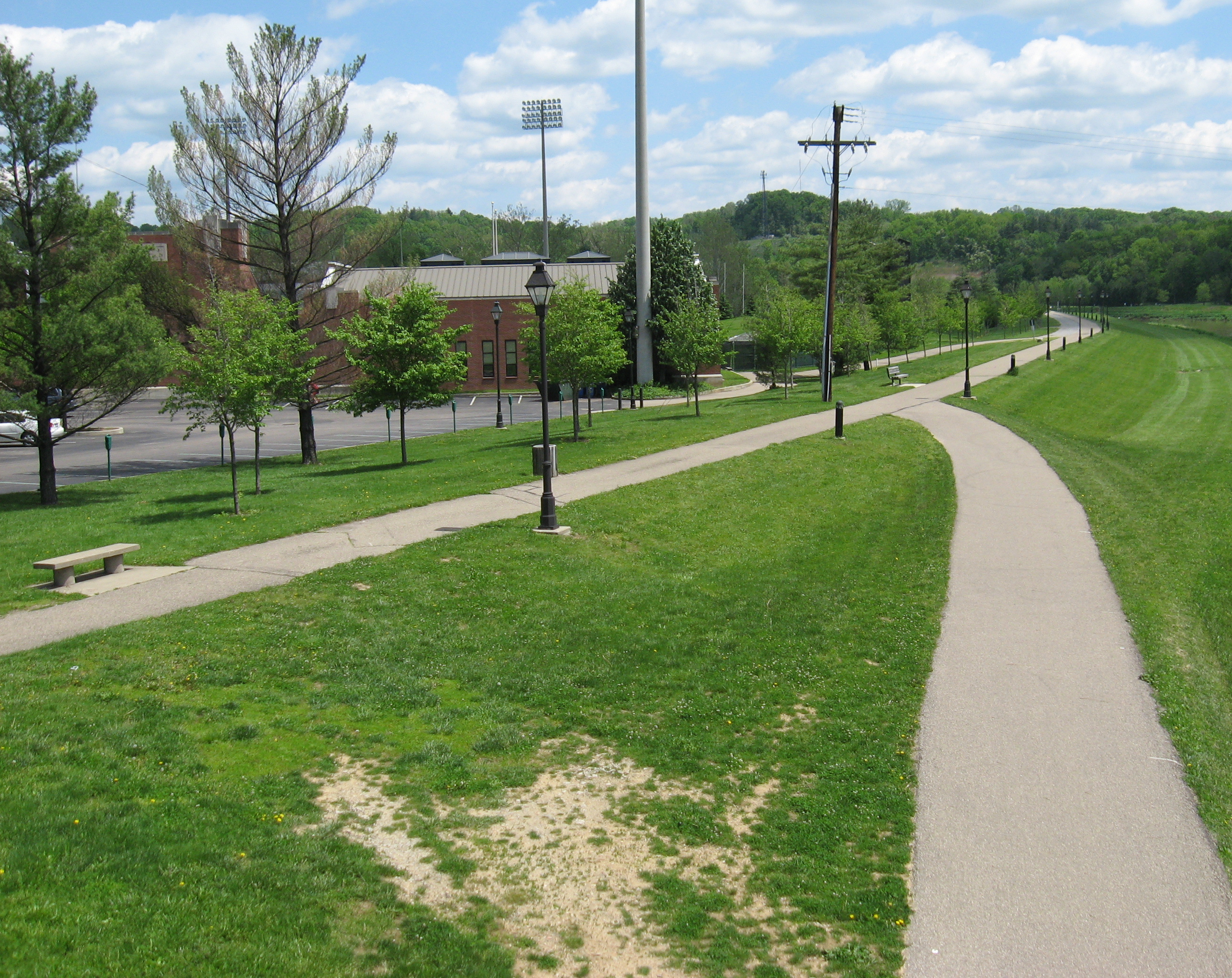 The Hockhocking Adena Bikeway as it passes between the Hocking River and the main campus of Ohio University (Athens, Ohio, USA)